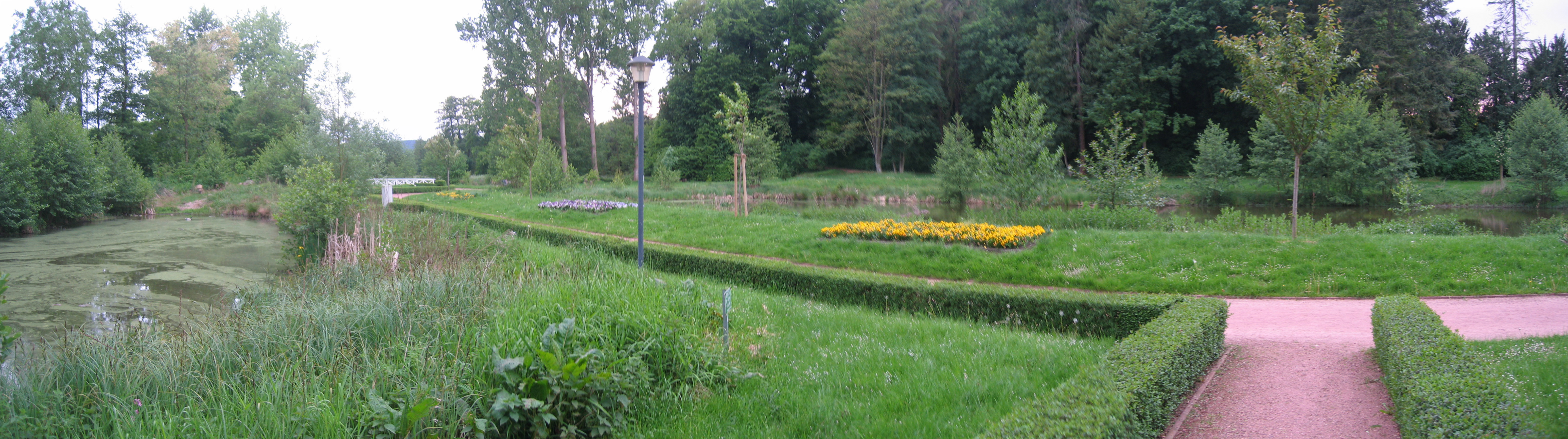 Park in Preußisch Oldendorf, District of Minden-Lübbecke, North Rhine-Westphalia, Germany.